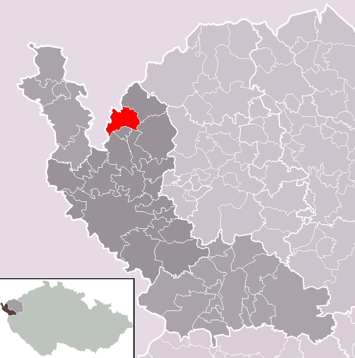 Location of Plesná town within Cheb District and administrative area of Cheb as a Municipality with Extended Competence.